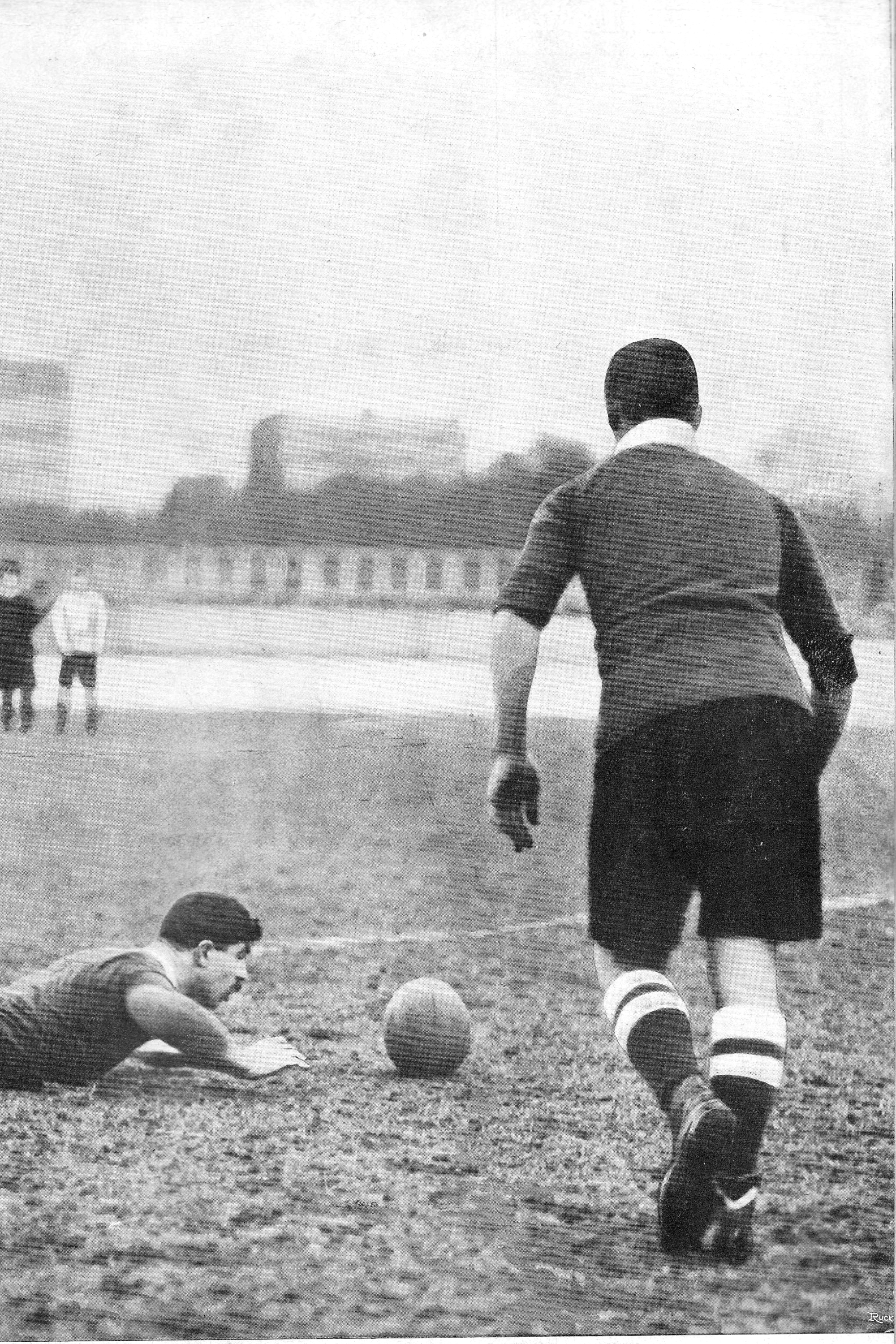 Paris, France. Match between a Paris XV (a team composed by players of Stade Français and Racing Club de France) and South Africa XV. After a South African try, Springboks' captain Roos places the ball for Morkel to convert the said try.